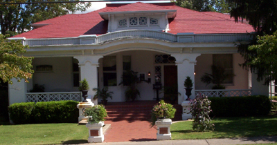 The Duncan Cultural Center, a museum and reception hall in Greenville, Kentucky